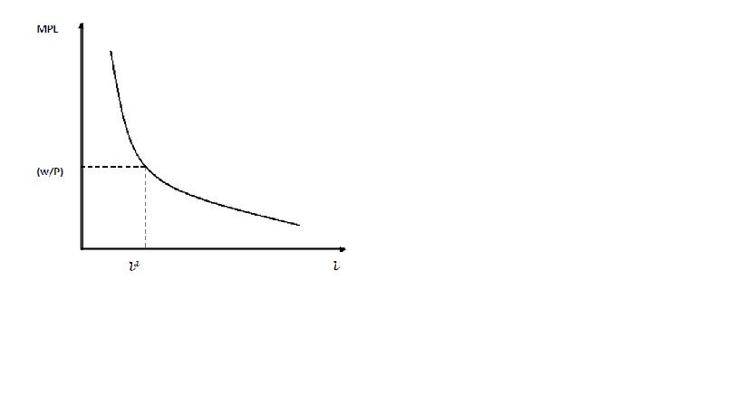 MPL is given on X axis and Labor demand is given on axis